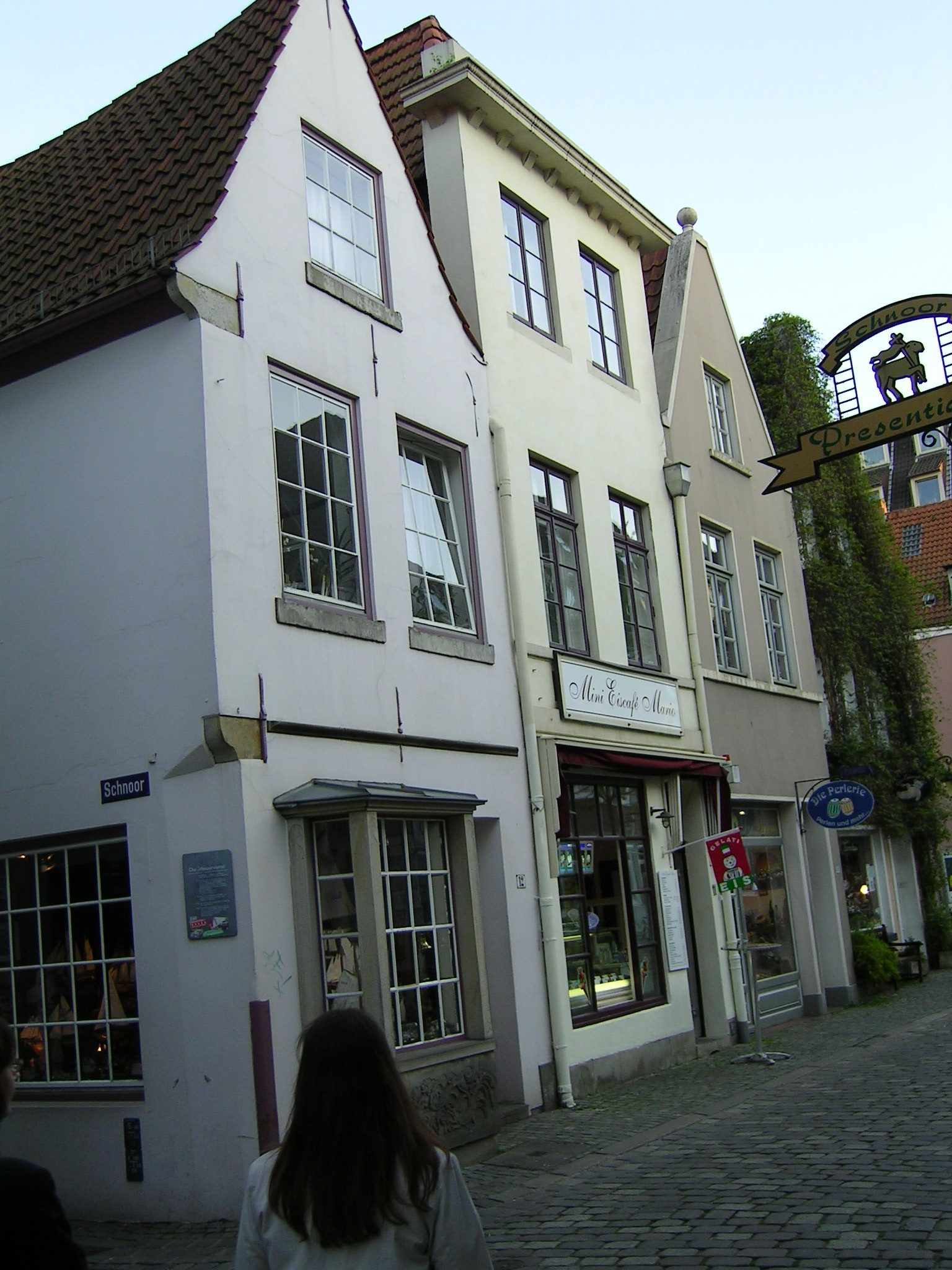 Houses from the 15th and 16th centuries along the narrow alleys in Bremen’s oldest surviving quarter